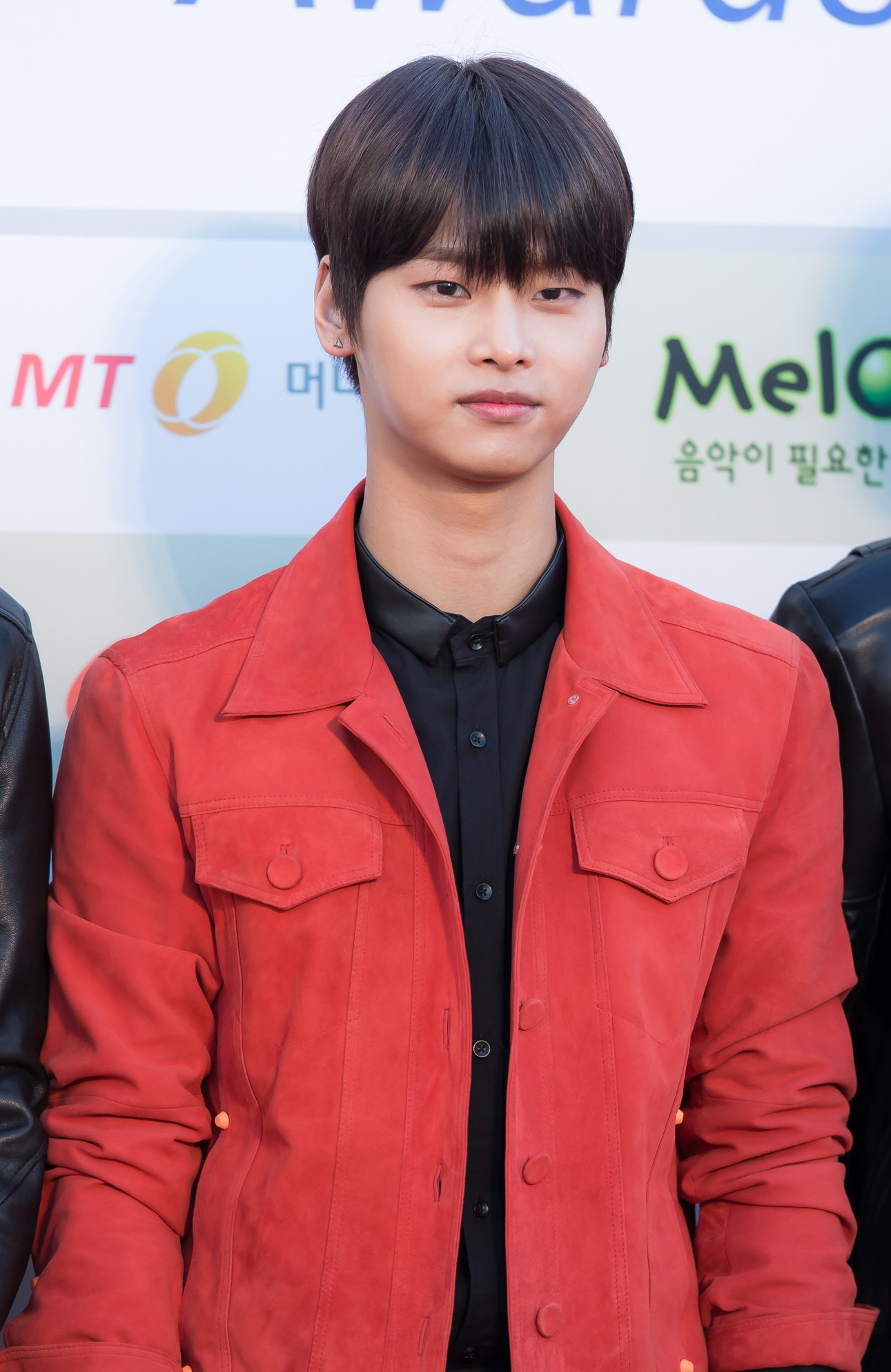 Cha Hak-yeon at Gaon Chart K-pop Awards red carpet, on February 17, 2016.